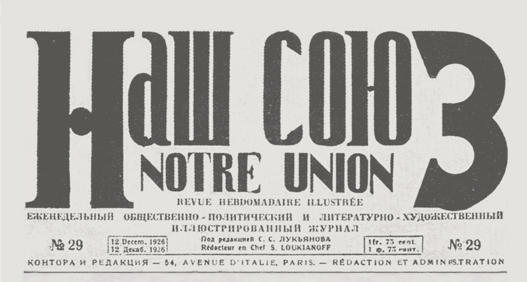 Cover of "Notre Union" № 29, 1926. France.